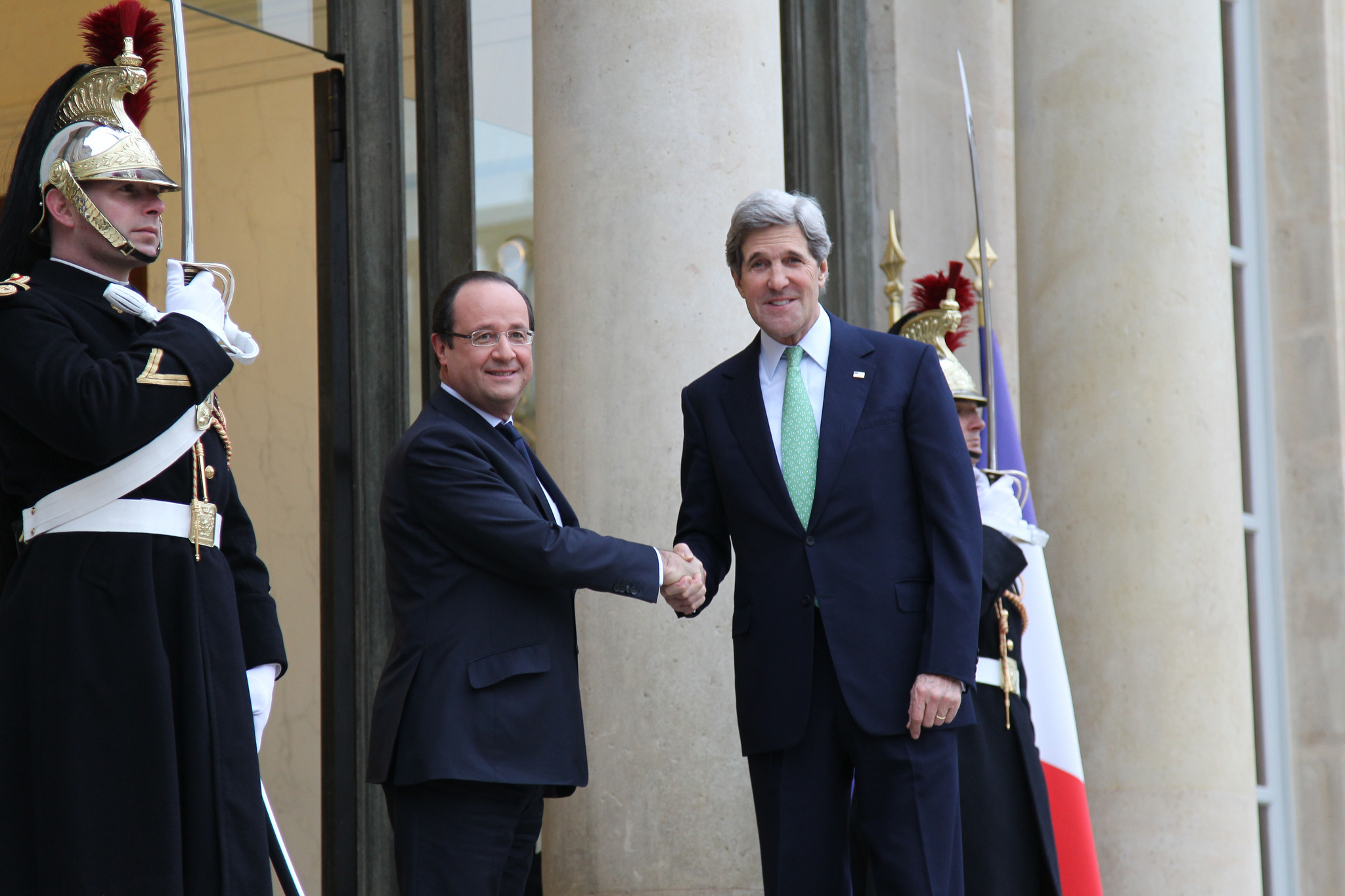 U.S. Secretary of State John Kerry shakes hands with French President Francois Hollande upon arrival at Élysée Palace in Paris, France, on February 27, 2013. [State Department Photo/ Public Domain]